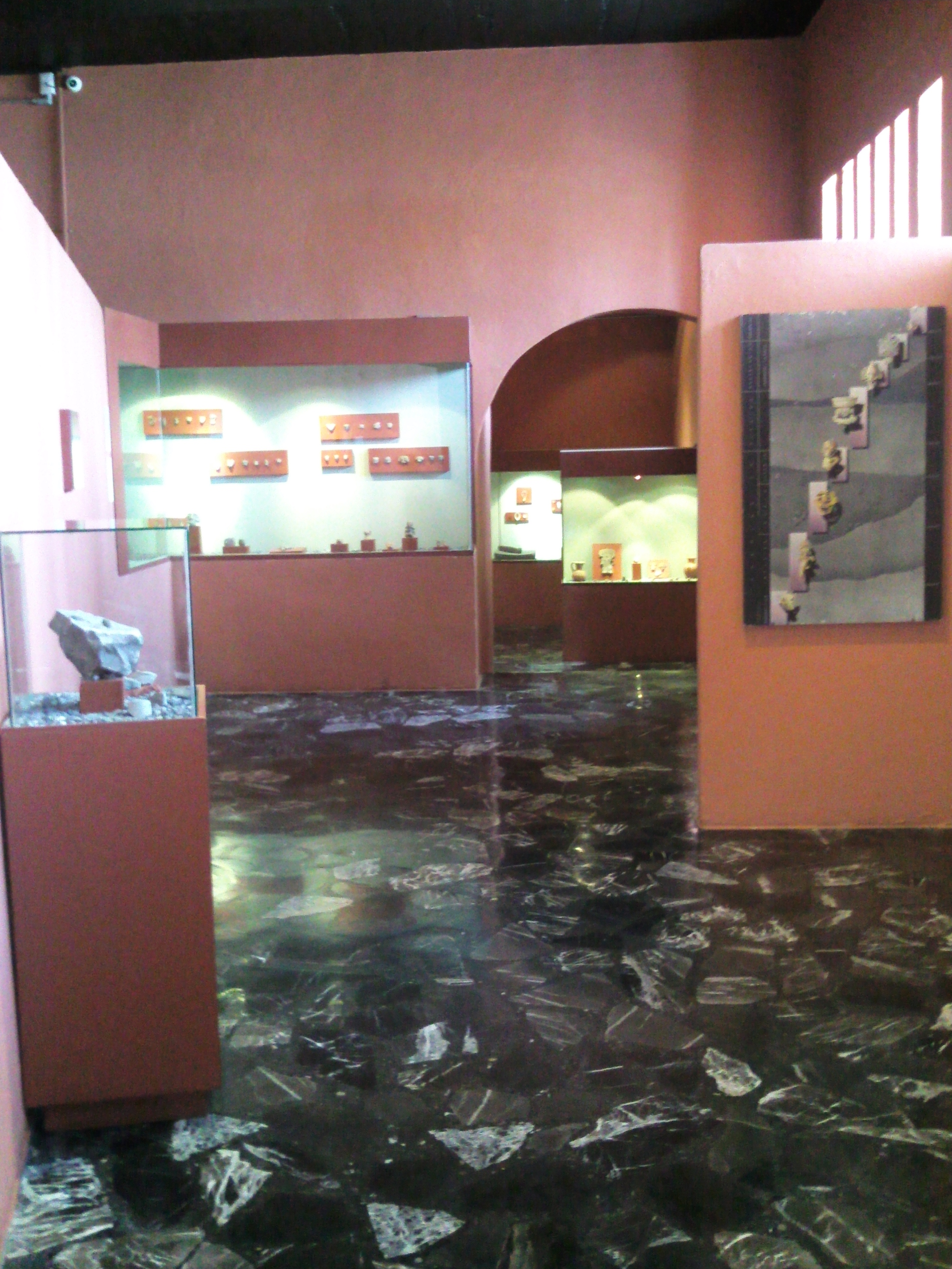 Sala antropológica del Museo de Apaxco